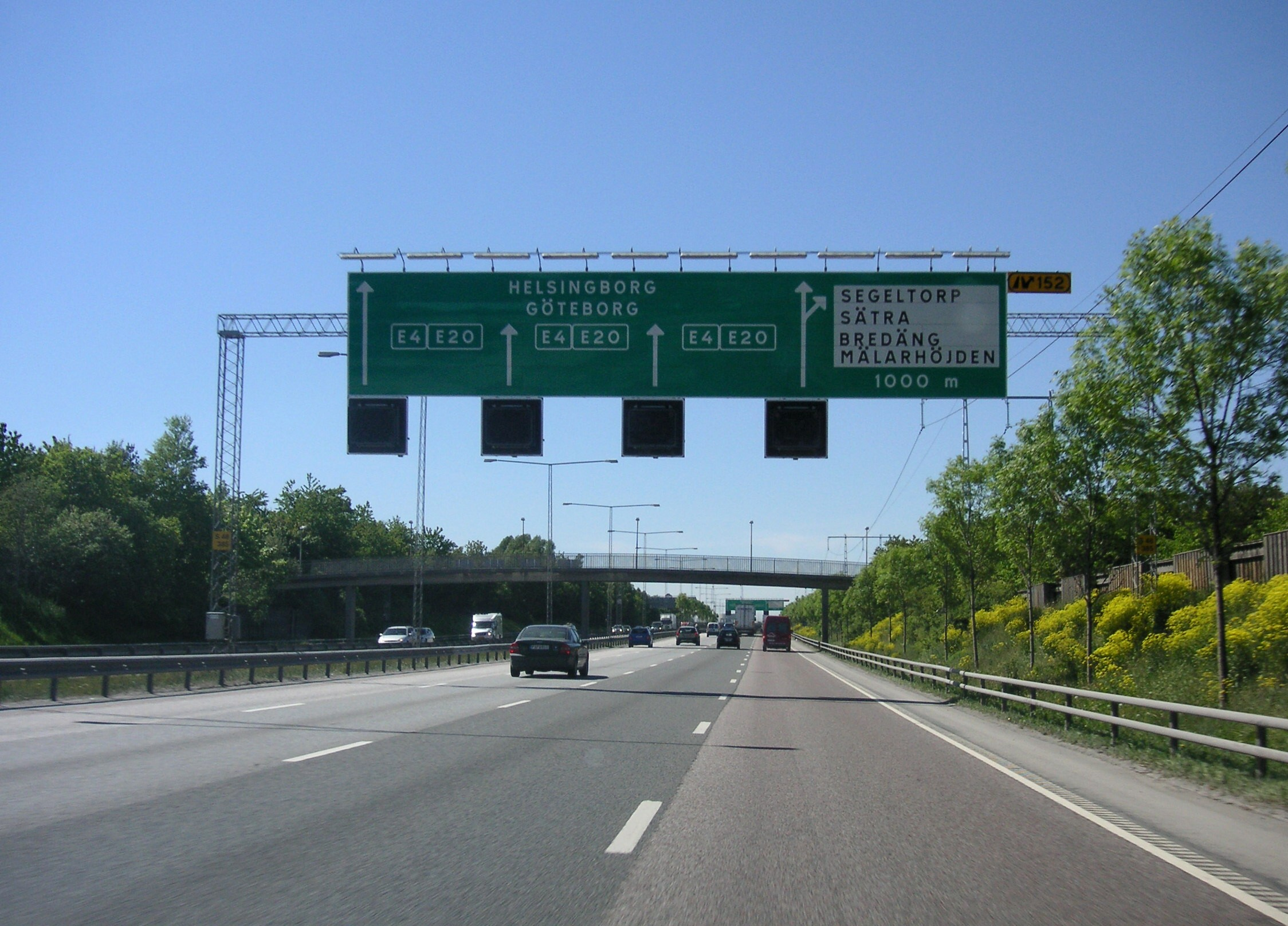 Södertäljevägen westbound through Fruängen in Stockholm, Sweden